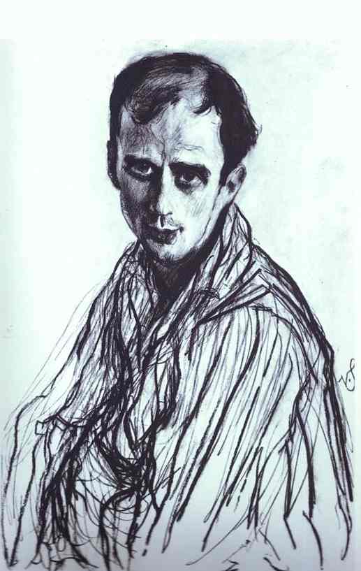 Portrait of Mikhail Fokin. 1909. Sanguine on paper. Whereabouts unknown.